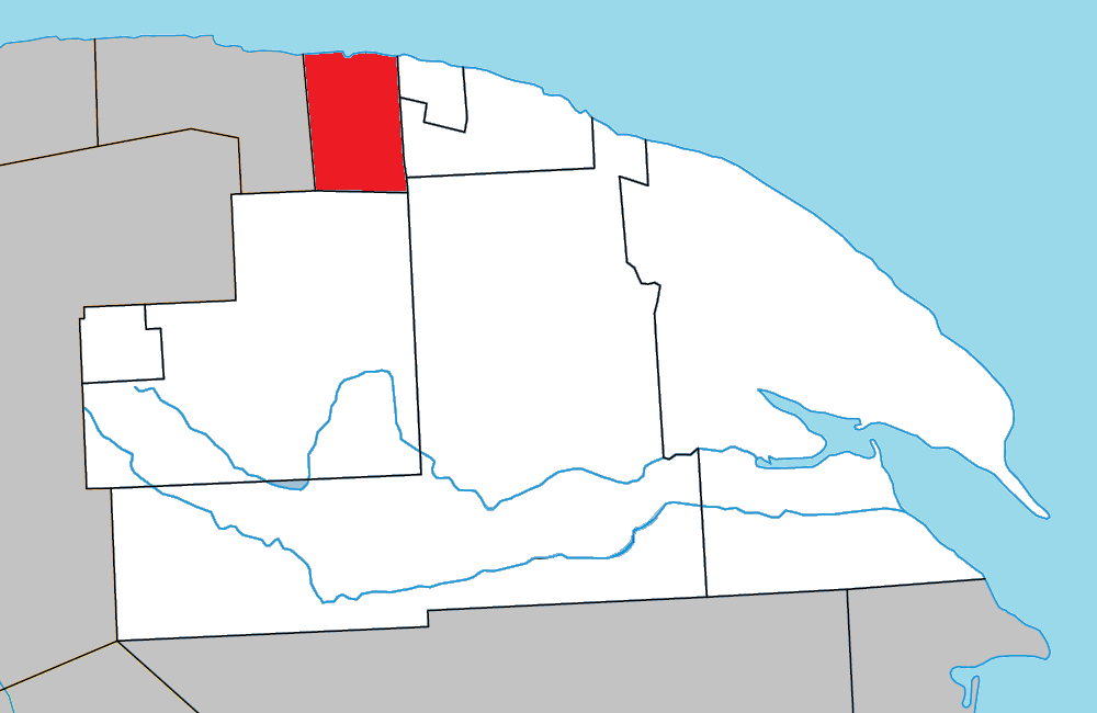 Location of Grande-Vallée, Quebec within La Côte-de-Gaspé Regional County Municipality.